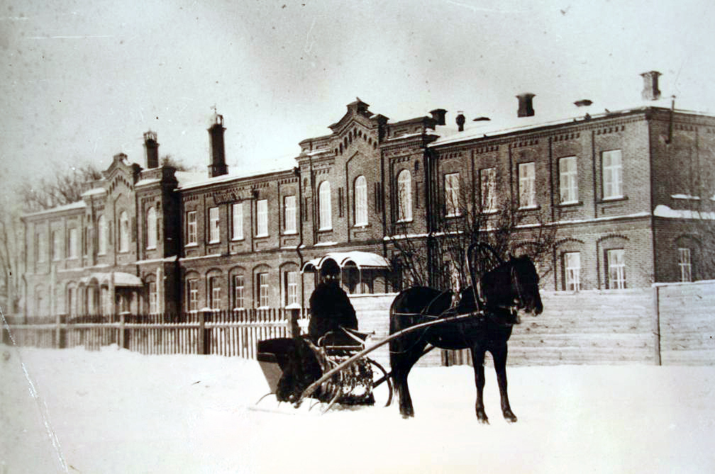 Theological school in Murom